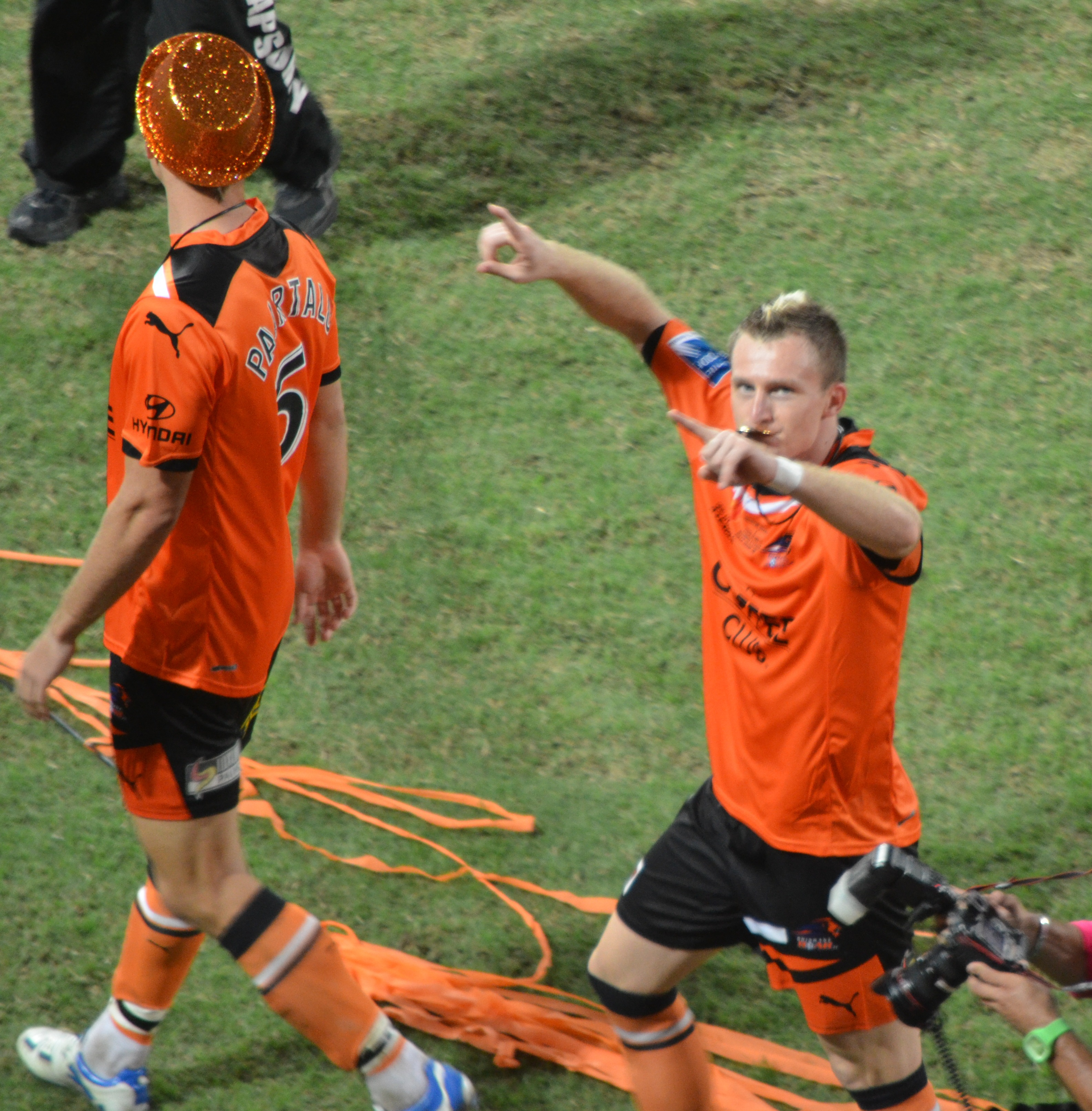 Orange Sunday II, A-League Grand Final, April 22 2012.